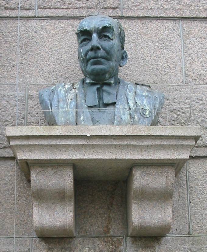 Lord Coutanche, Bailiff of Jersey, bust in Royal Square